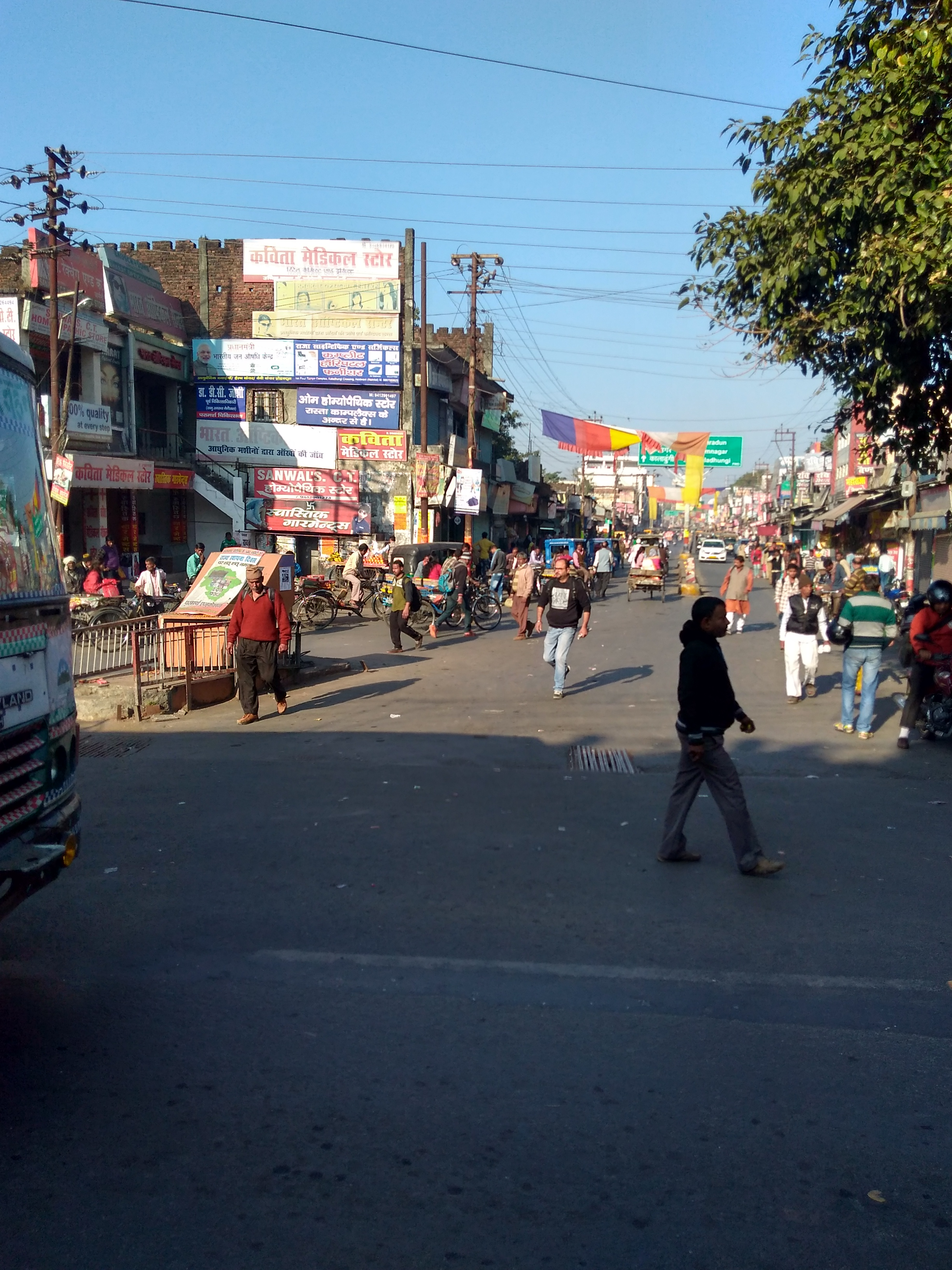 Kaladhungi Road, Haldwani